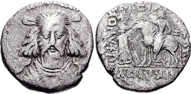 Coin of Artabanus III of Parthia.